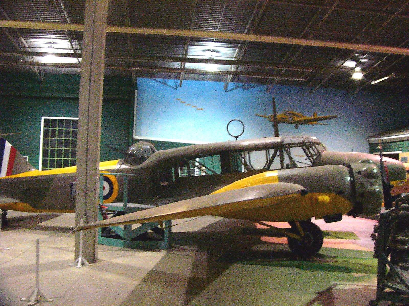 An Avro Anson bomber trainer exhibit in the Western Development Museum Moose Jaw